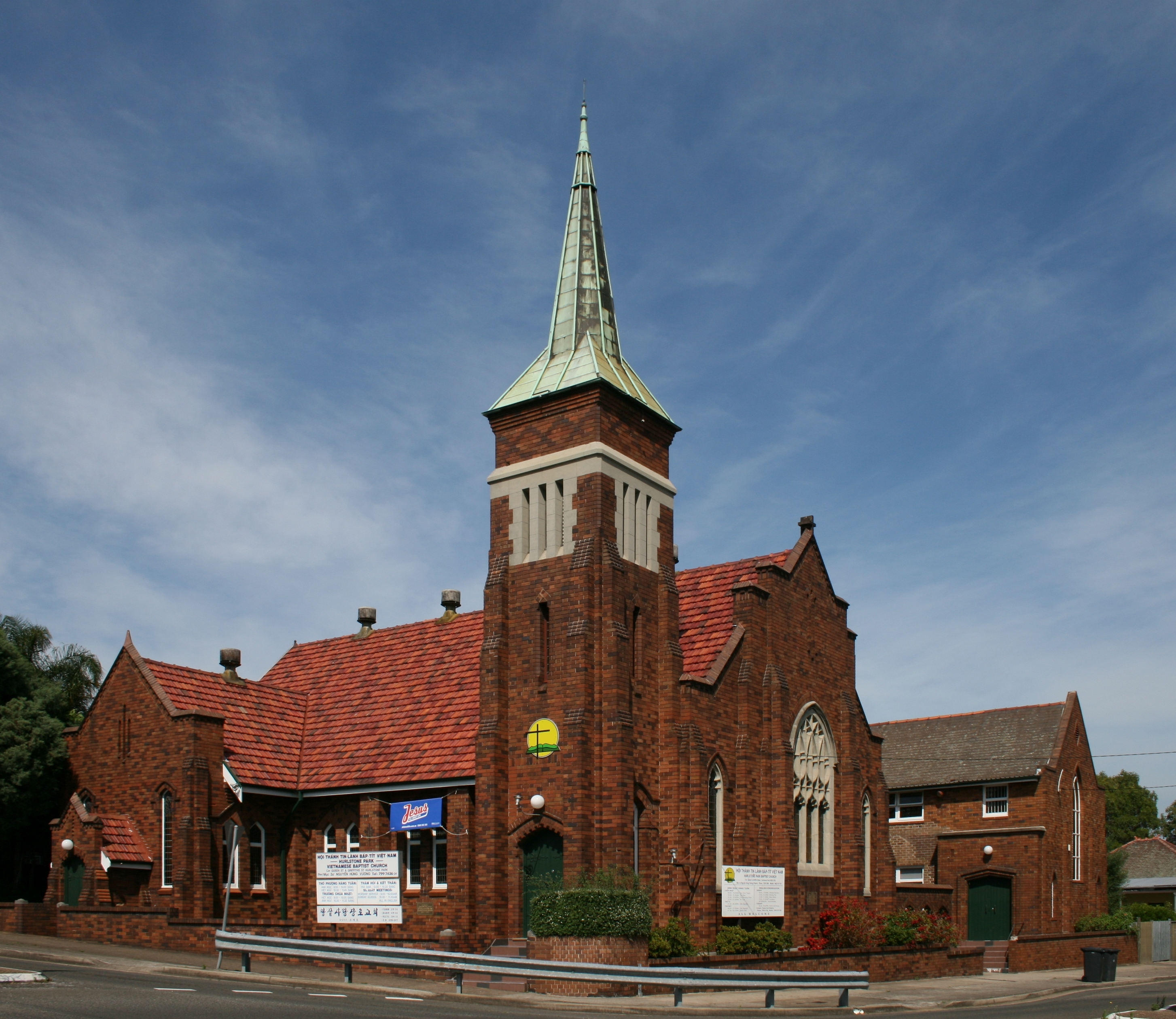 Hurlstone Park Vietnamese Baptist Church in Hurlstone Park, New South Wales (NSW), Australia. A banner can be seen promoting the "Jesus - all about life" campaign.